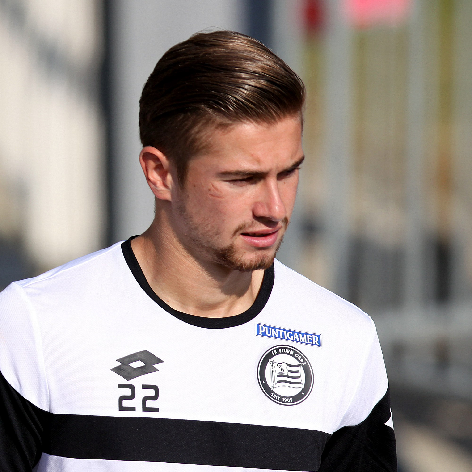 Match of the Austrian Football Bundesliga – SV Mattersburg (green shirts) vs. SK Sturm Graz (white shirts) on 2015-09-13 in Pappelstadion, Mattersburg – The photo shows Andreas Gruber (SK Sturm Graz)